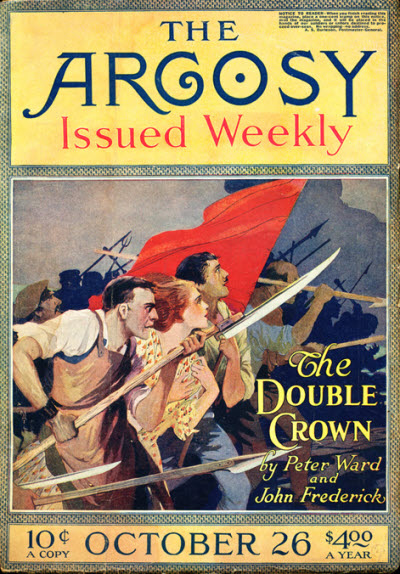 The Argosy, October 26, 1918